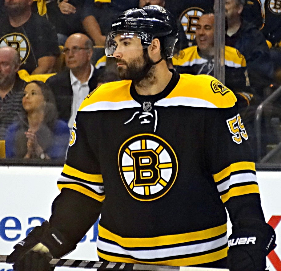 Boston defenseman Johnny Boychuk during game four of the Bruins Eastern Conference Finals series against the Pittsburgh Penguins, June 7, 2013 at TD Garden in Boston, MA.